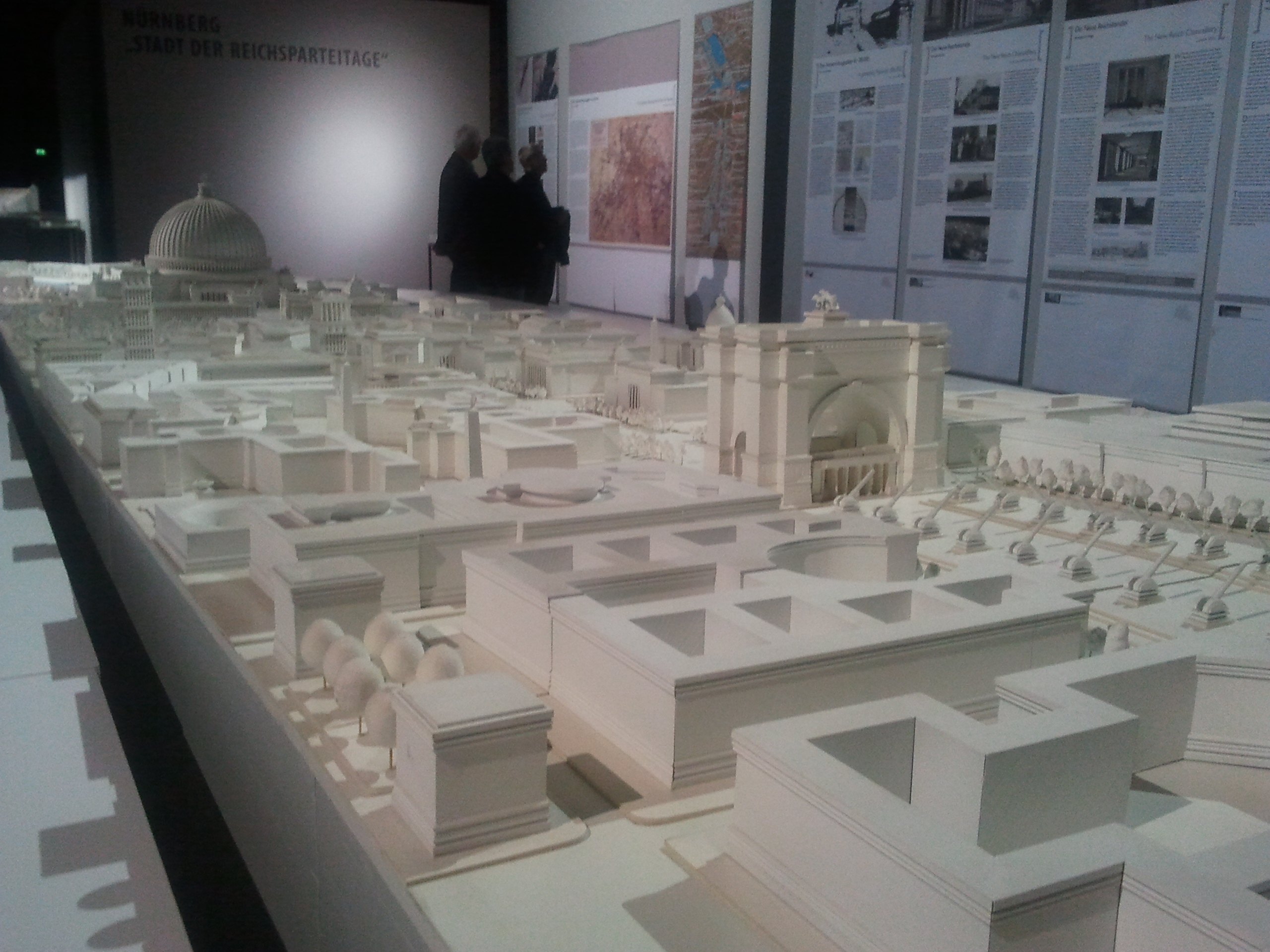 North-South Axis of the "Welthauptstadt Germania" with the triumphal arch and the Volkshalle. The entire architectural model is composed of three parts resp. segments: The central part (from the triumphal arch to the Volkshalle) was built for the 2004 movie Downfall (Oliver Hirschbiegel) and is not a fully accurate realization of the Generalbauinspektor's plan (including a shortening of the Arch-Volkshalle section). For the 2005 movie "Speer und Er" (Heinrich Breloer) the model was expanded with the significantly more precise southern and northern railway stations and its forecourts. Part of the Myth "Germania" and the "Temple City" of Nuremberg exhibition at the Documentation Center in Nuremberg (April 7, 2011 - September 11, 2011).